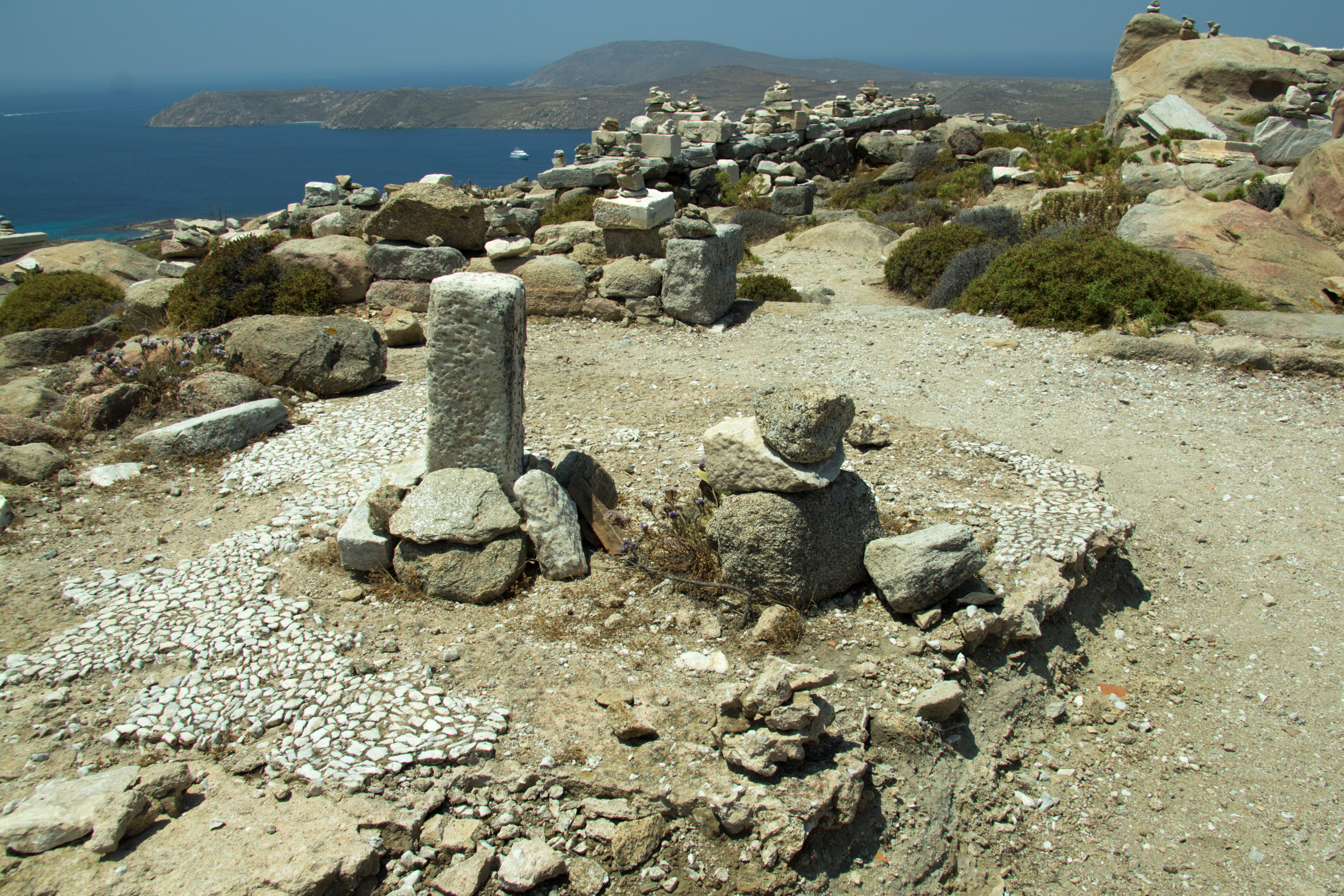 The remains of the temple on top of Kynthos on Delos.